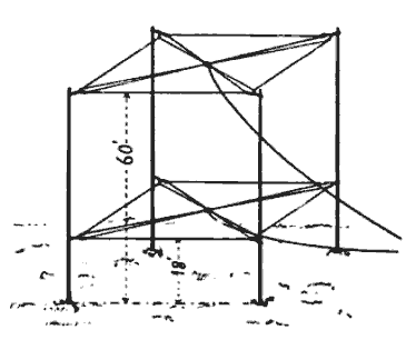 Antenna invented by early radio researchers Oliver Lodge and Alexander Muirhead used in their wireless telegraphy system. The two sections are attached to the two output terminals of the transmitter, the top section is the antenna while the bottom serves as a counterpoise. It is the first use of a counterpoise, which Muirhead patented in 1907.